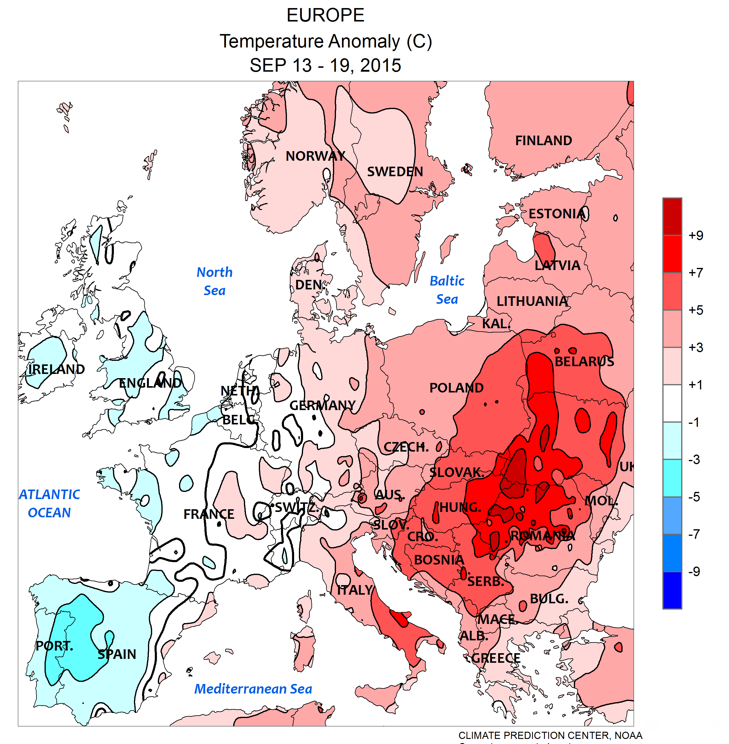 Europe: Temperature anomaly September 13 - 19, 2015, computer generated contours, based on preliminary data